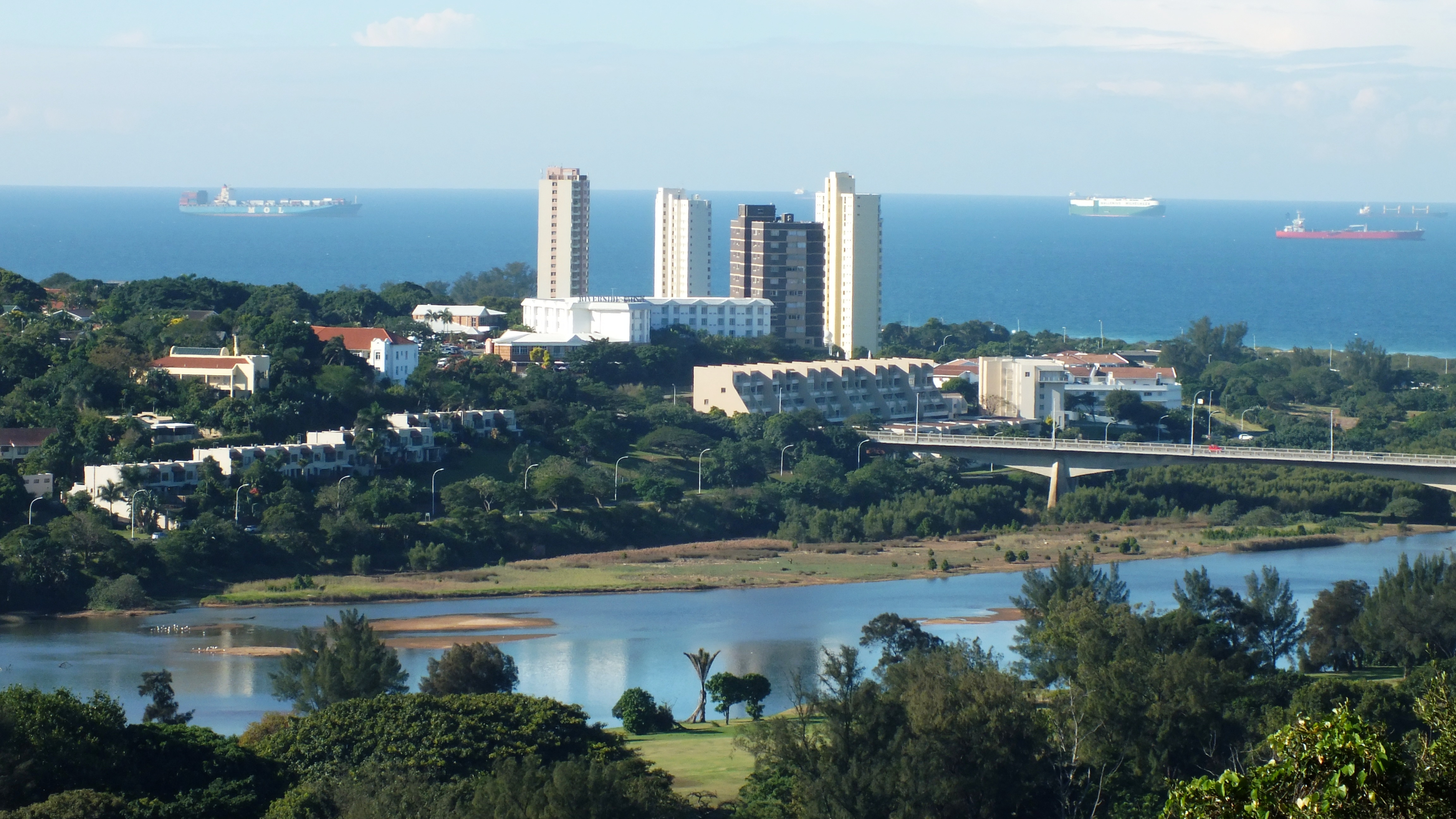 The Umgeni River's Blue Lagoon in Durban, South Africa, as seen from a viewing platform in Burman Bush Nature Reserve.